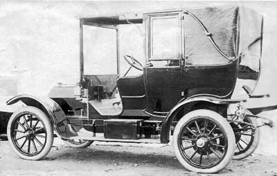 1908 Kissel 40 HP Model D9 touring with coachwork by Charles Abresch Co. of Milwaukee, Wisc. Abresch was a pioneer working with light alloy coachwork, and made many bodies for early Kissel Kars.